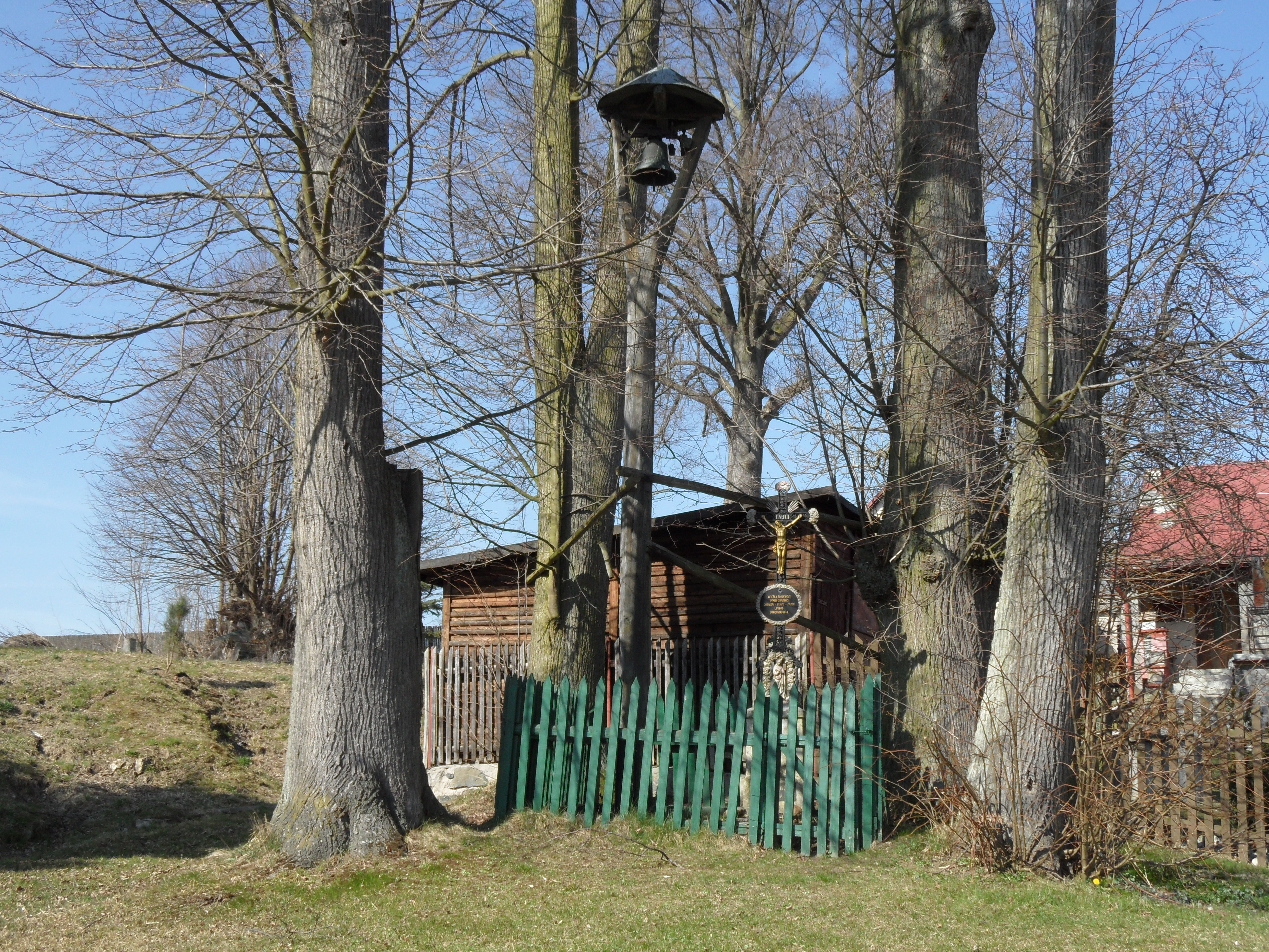 Chvalov (Červené Janovice) J. Crucifix and Bell Tower between Trees. Kutná Hora District, the Czech Republic.